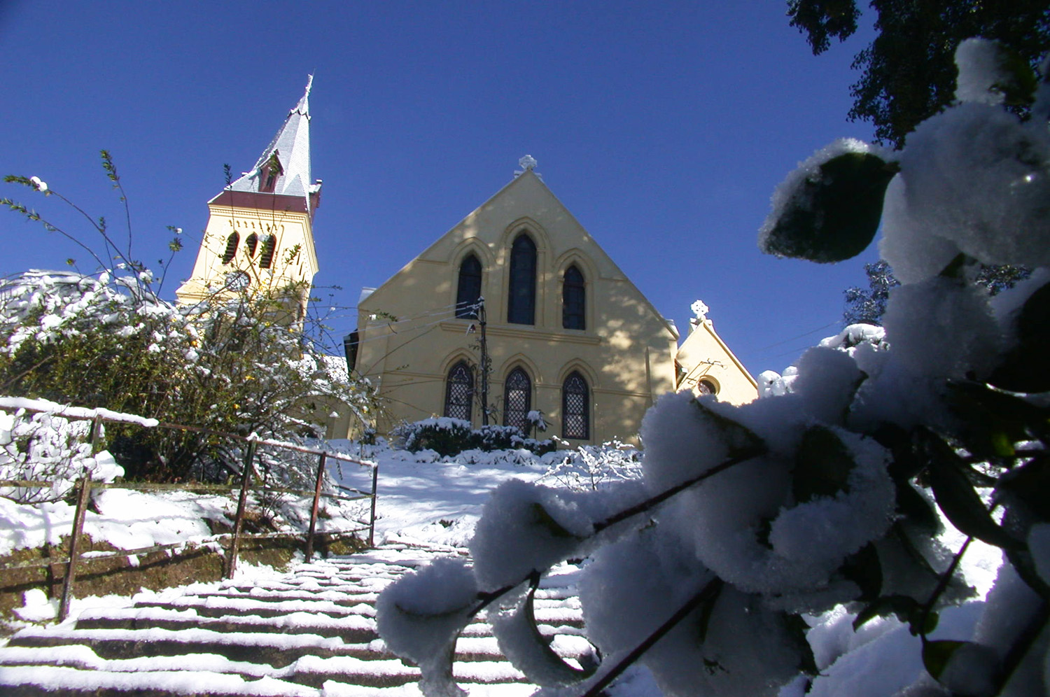 St. Andrews Church, Darjeeling during snowfall. St. Andrew's Church was named after the patron saint of Scotland. The foundation stone of the church was laid on November 30, 1843. The church was badly damaged by an earthquake and had to be rebuilt in the year 1873.